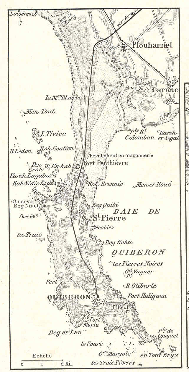 Subject: Peninsulas--France--Quiberon--Maps, Quiberon (France)--Maps Geographic Subject: France--Quiberon Tag: Coasts